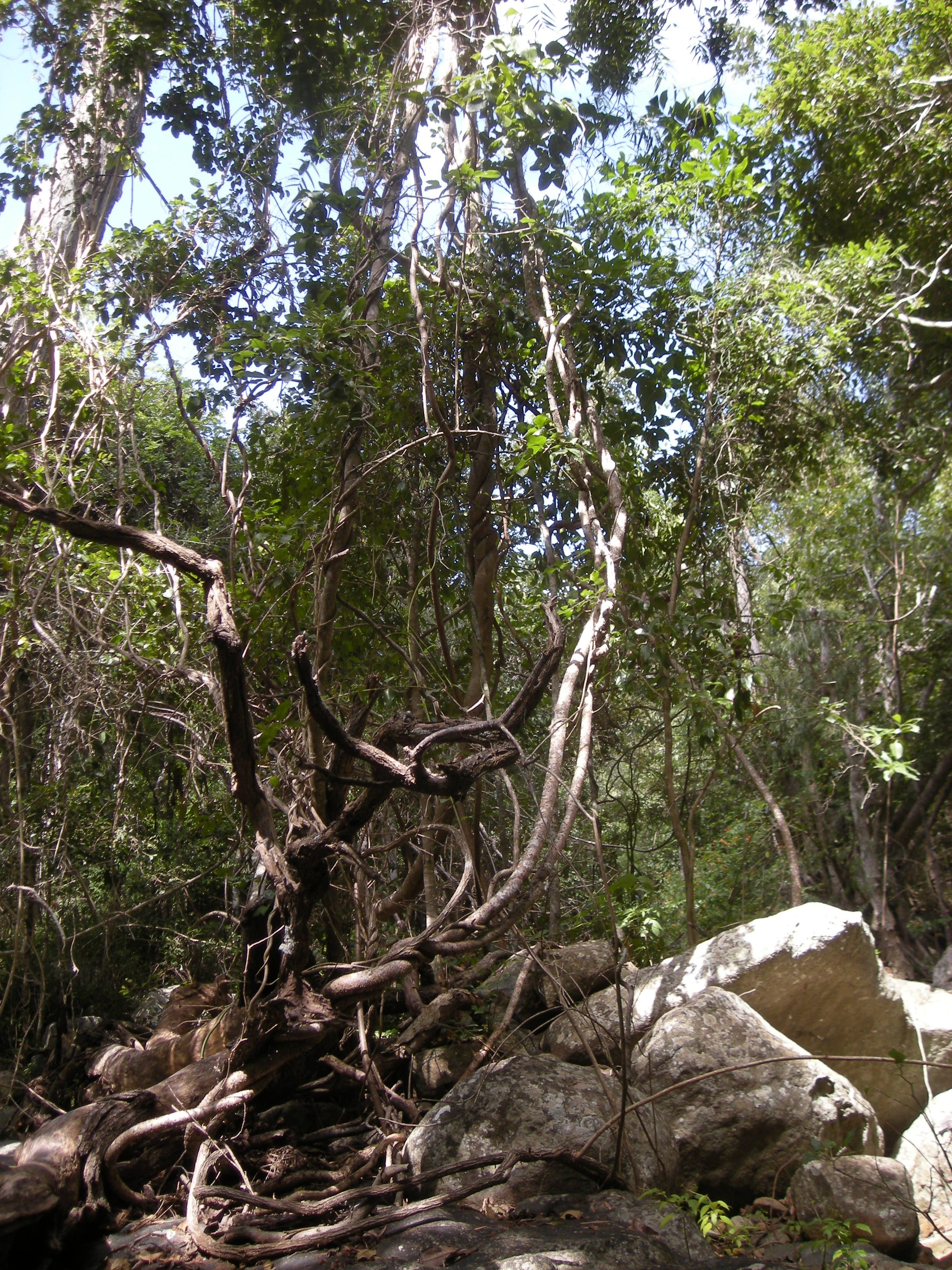 Mixed species tangle of lianas, Mt. Archer National Park. Species include Austrosteenisia blackii, Parsonsia sp. and Sarcopetalum harveyanum.